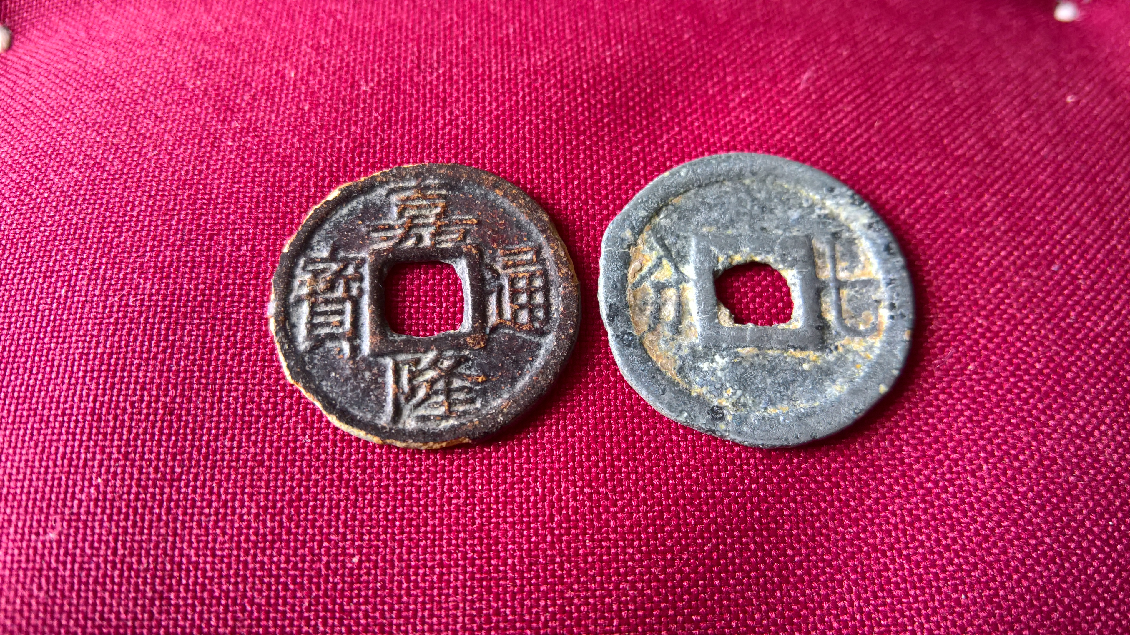 A couple of Gia Long Thông Bảo (嘉隆通寶) coins, the reverse reads Thất Phân (七分). One is made from copper and the other zinc.